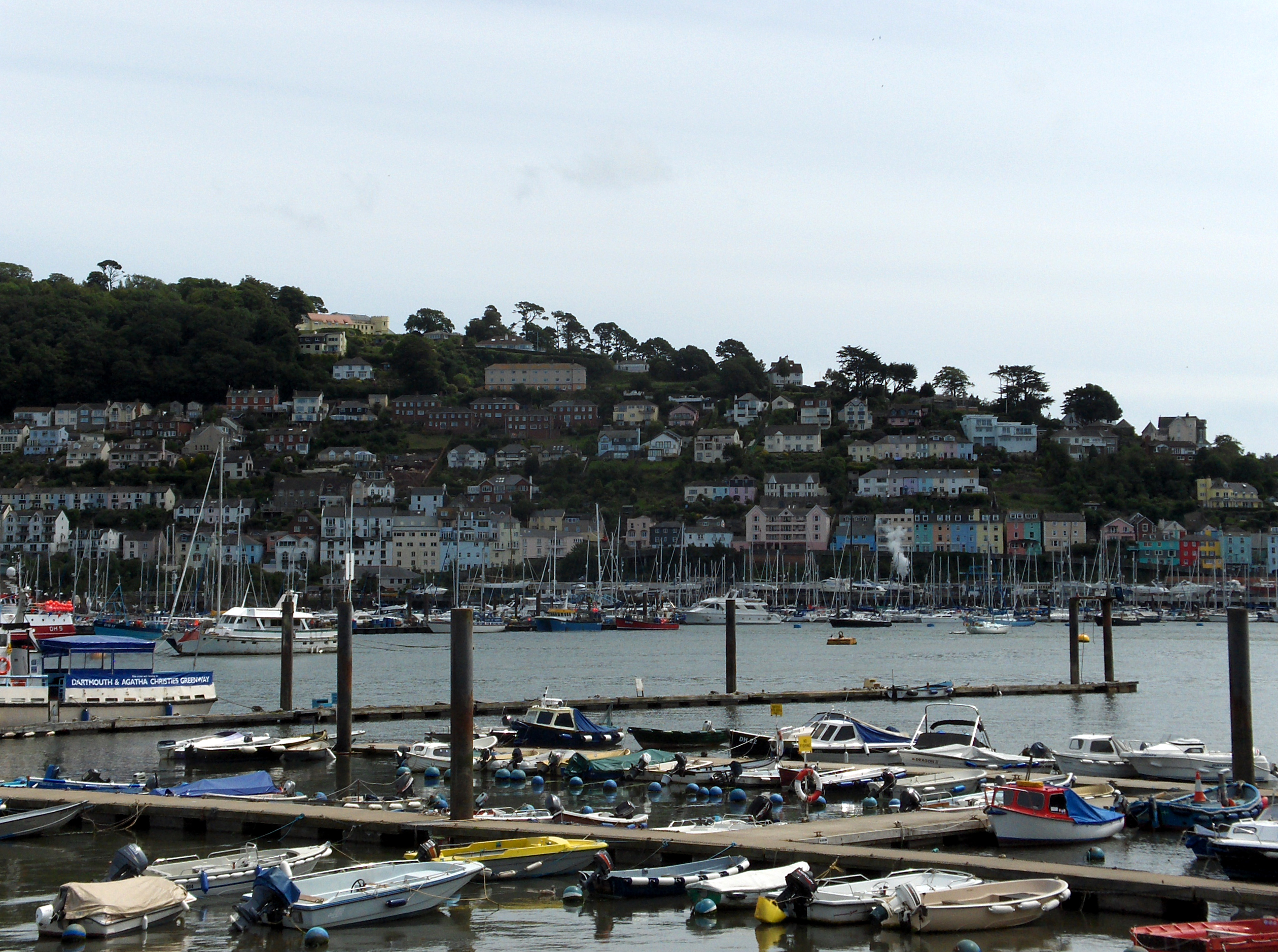 Kingswear, Devon, seen across Dartmouth Harbour from Dartmouth